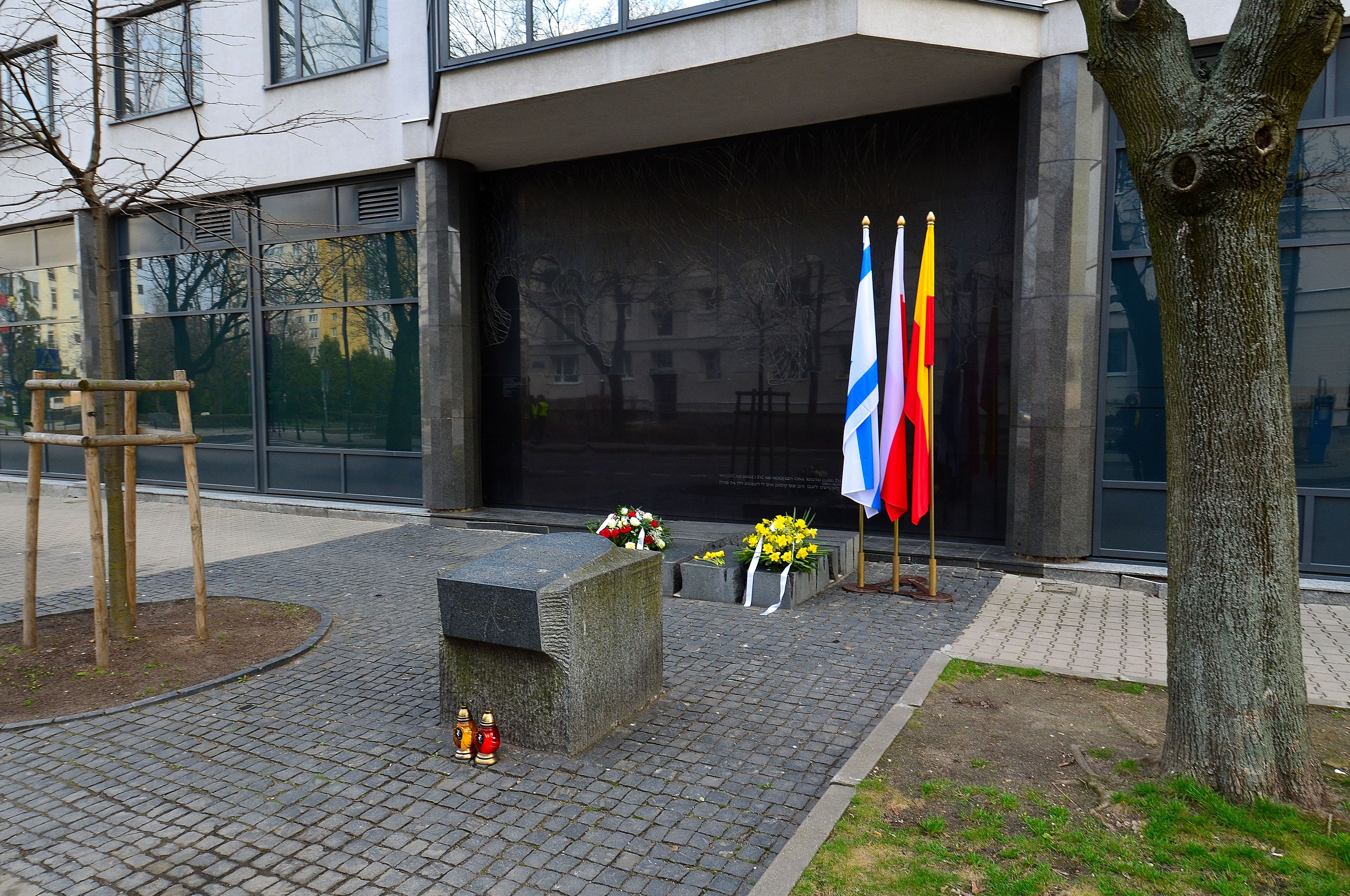 Szmul Zygielbojm Monument in Warsaw